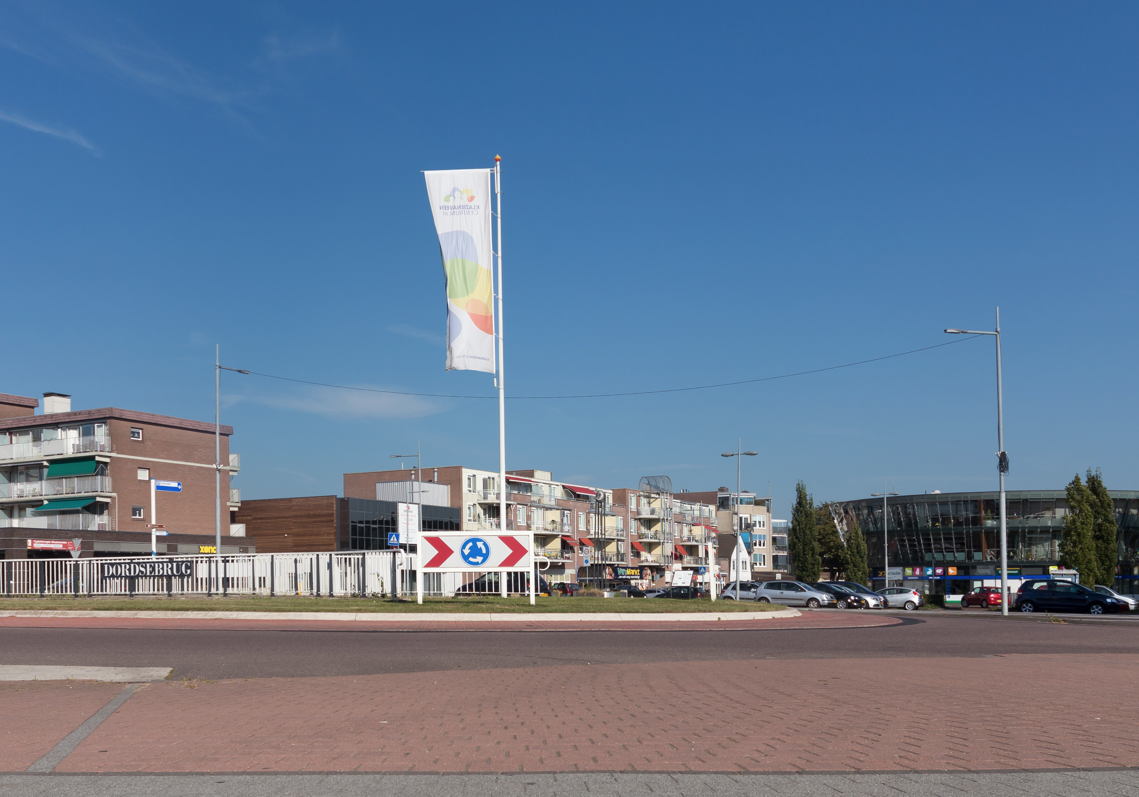 Klazienaveen, roundabout: Van Echtenskanaal Noordzijde-Dordsedijk